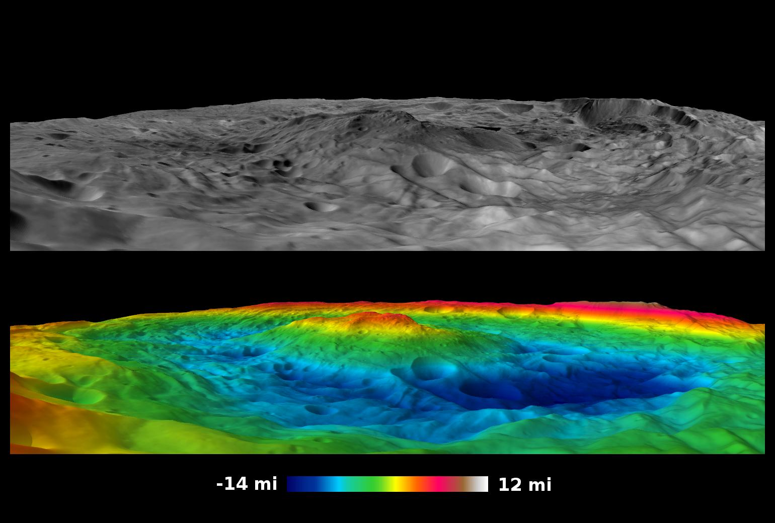 Scientists with NASA's Dawn mission have created perspective views of the Rheasilvia impact basin on the giant asteroid Vesta. Rheasilvia is located in Vesta's southern hemisphere. The movie shows 360-degree views from inside Rheasilvia. The black-and-white perspective view was made by laying a global image mosaic from Dawn's survey phase (1,700 miles or 2,750 kilometers in altitude) over a topographic shape model. The colorized view was made by laying a color-coded height map over the topography. Red indicates higher areas and blue indicates lower areas. The central mountain is approximately 110 miles (180 kilometers) wide and 12 to 15 miles (20 to 25 kilometers) tall. Cliffs 9 to 12 miles (15 to 20 kilometers) high are seen along parts of the edge of the basin. A still image showing the black-and-white view from the Rheasilvia rim, with the corresponding colorized topography image, is also included here. The images used to create these vistas were obtained by Dawn's framing camera from Aug. 11 to Nov. 2, 2011. The Dawn mission to Vesta and Ceres is managed by NASA's Jet Propulsion Laboratory, a division of the California Institute of Technology in Pasadena, for NASA's Science Mission Directorate, Washington. UCLA is responsible for overall Dawn mission science. The Dawn framing cameras were developed and built under the leadership of the Max Planck Institute for Solar System Research, Katlenburg-Lindau, Germany, with significant contributions by DLR German Aerospace Center, Institute of Planetary Research, Berlin, and in coordination with the Institute of Computer and Communication Network Engineering, Braunschweig. The framing camera project is funded by the Max Planck Society, DLR and NASA/JPL. More information about Dawn is online at and